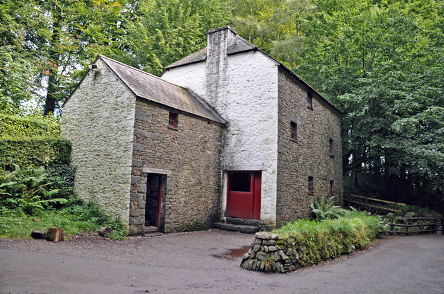 Bompren corn mill, originally at Cross Inn, Ceredigion, West Wales. Re-erected at the St Fagans National History Museum, Cardiff, in 1977.